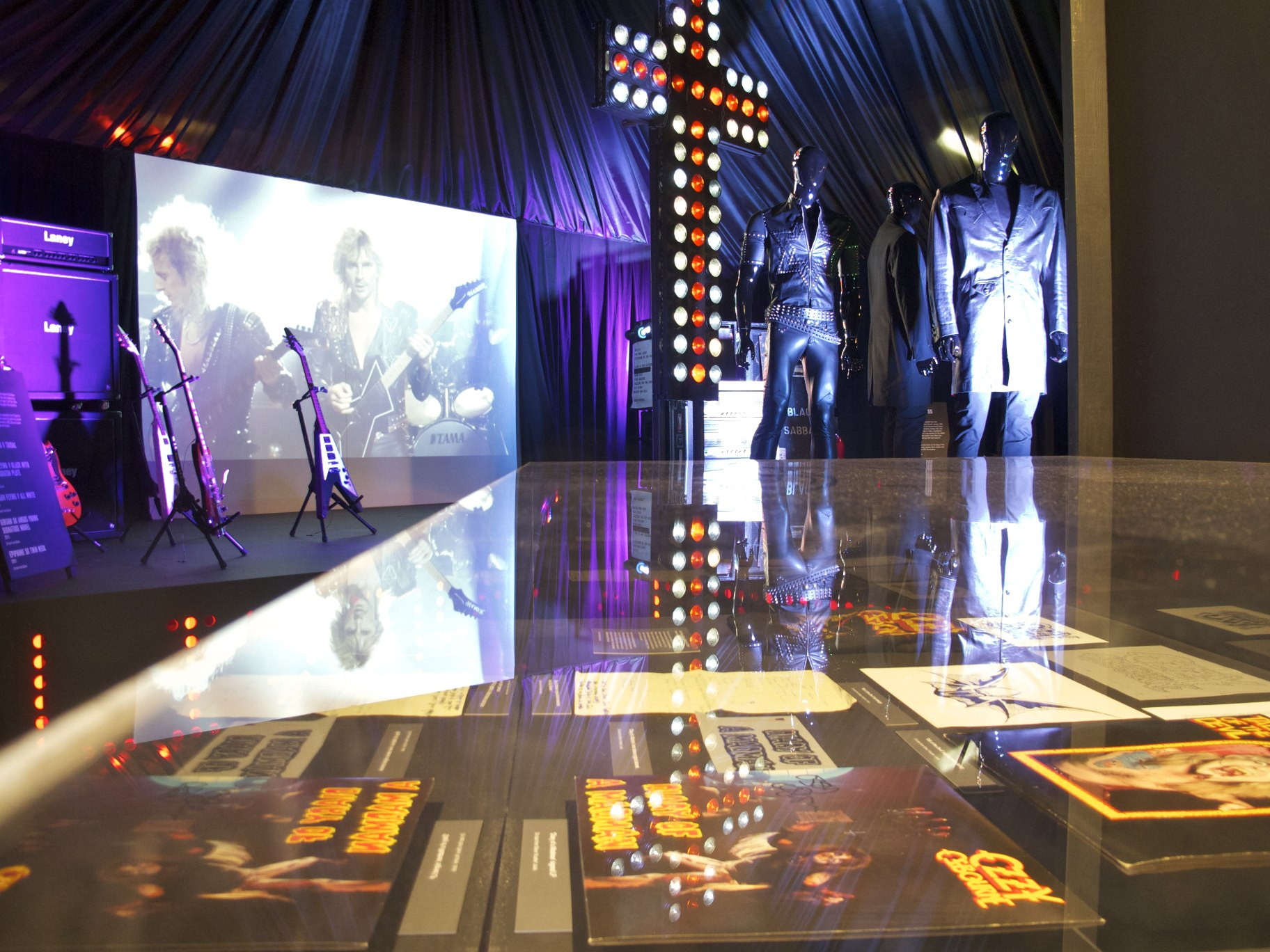 Capsule presents the Home of Metal exhibition at Birmingham Museum and Art Gallery Runs now until September 2011. More neate photos